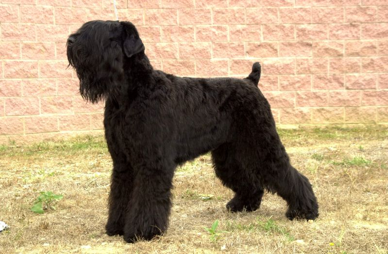 Malahovkaja Serenada - Female - 2 years old - International Expo Empoli